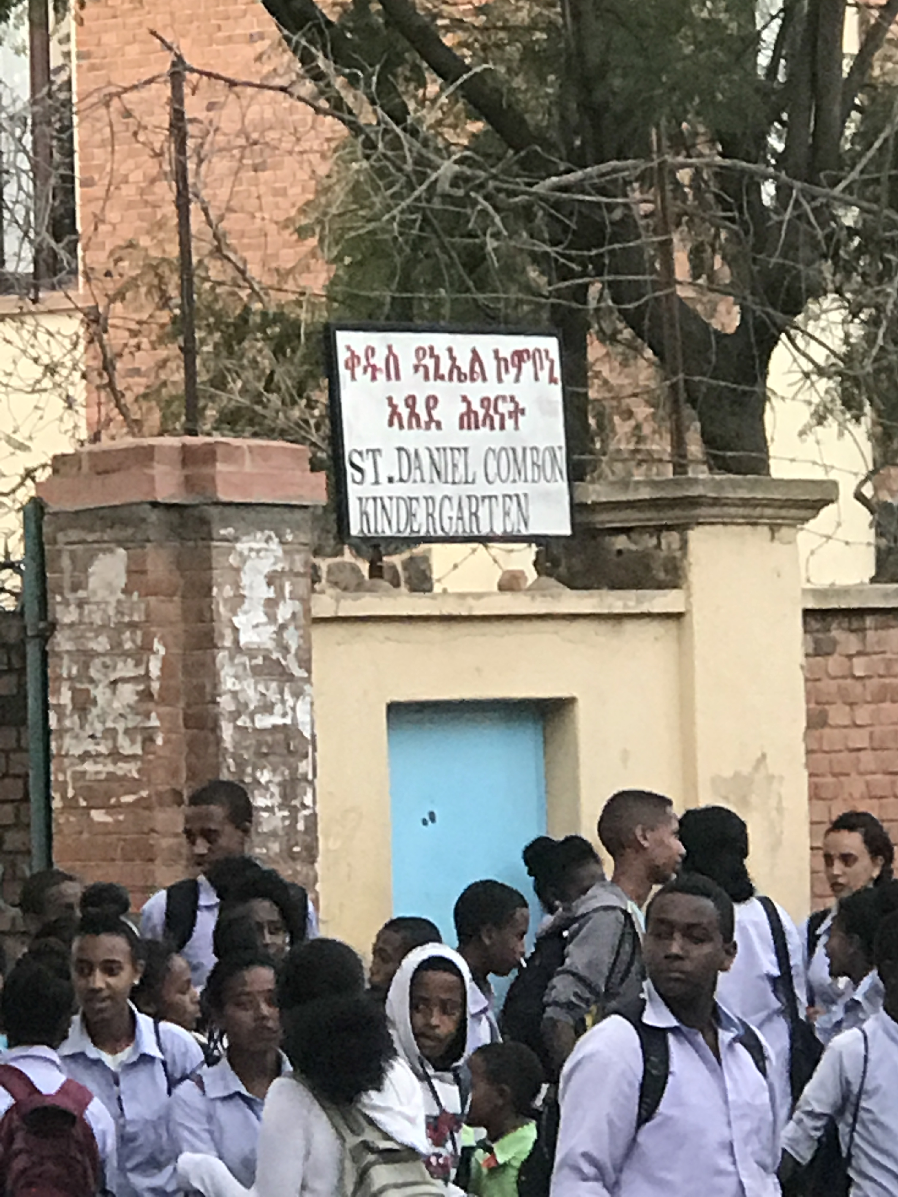 This is an image of "African people at work" from Eritrea